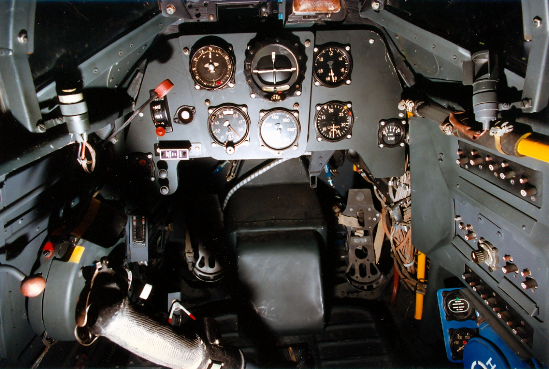 Messerschmitt Bf 109G-10 cockpit at the National Museum of the United States Air Force